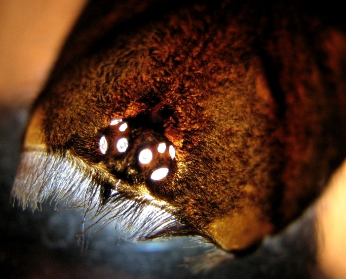 Light shining through the forward part of the prosoma of a moulted skin of an adult Lasiodora parahybana female, showing the eight eyes